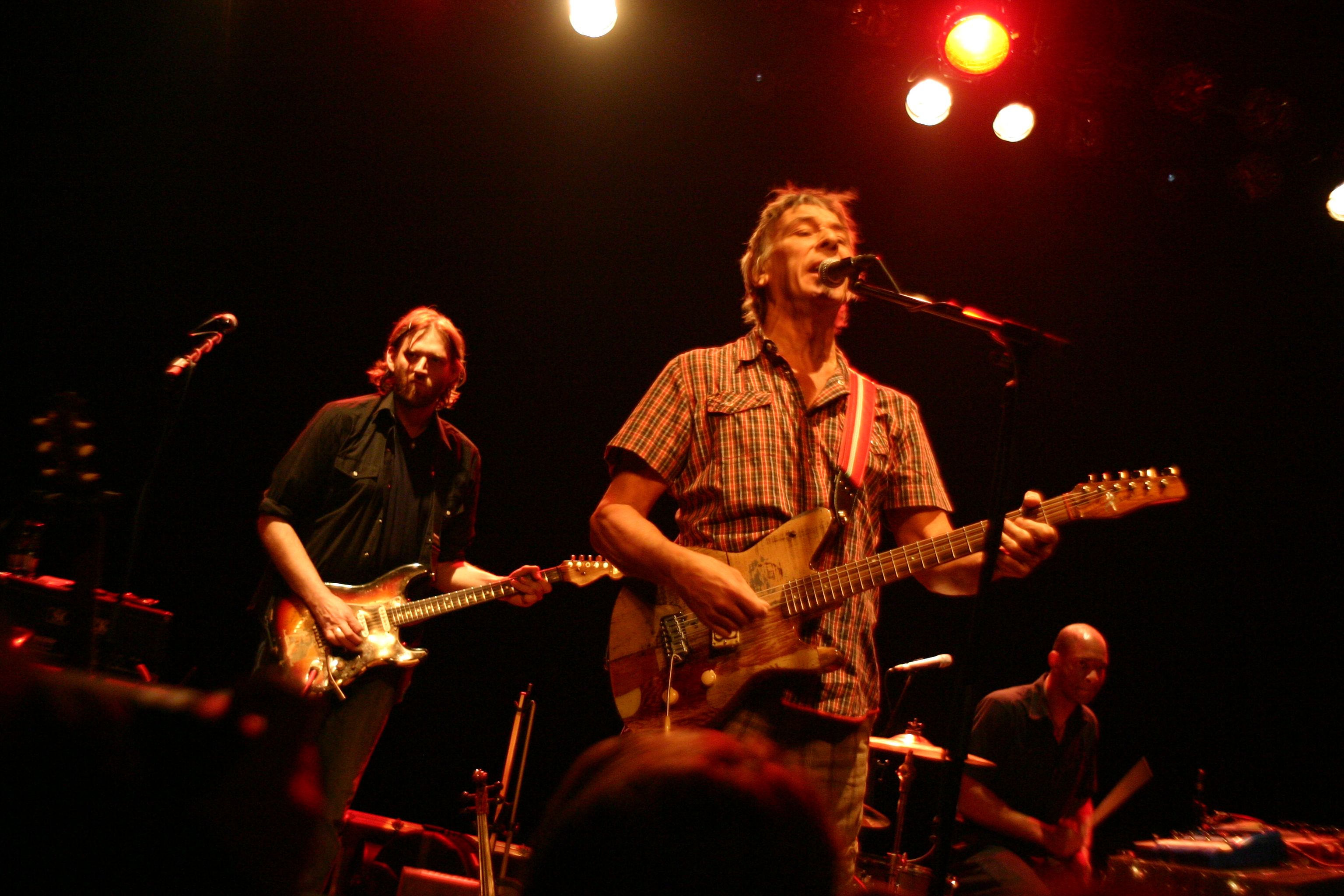 John Cale (with drummer Michael Jerome and guitarist Dustin Boyer) at Archa Theatre in Prague, 9 March 2006